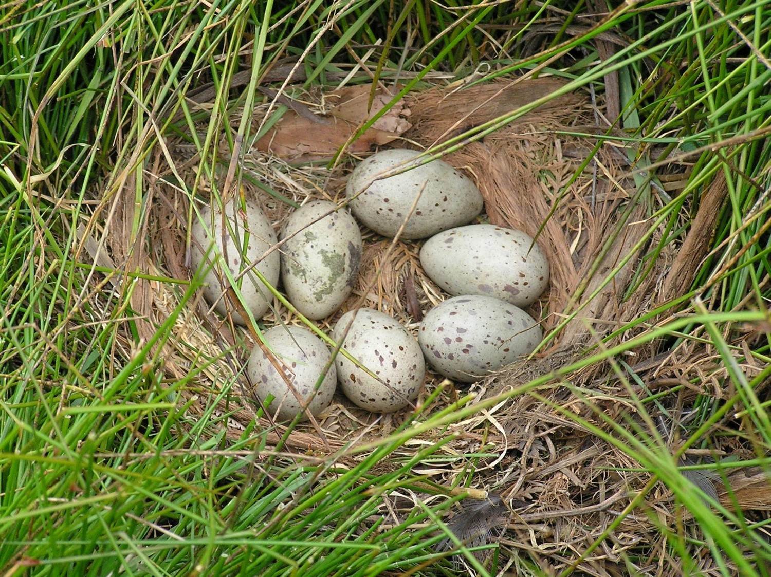 Tasmanian Native-hen (Tribonyx mortierii) nest with eggs Tasmania, Australia.